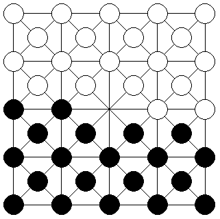 Initial board setup of game Tuknanavuhpi, created in MS paint based on the Wikipedia article in order to have an illustration for that article.